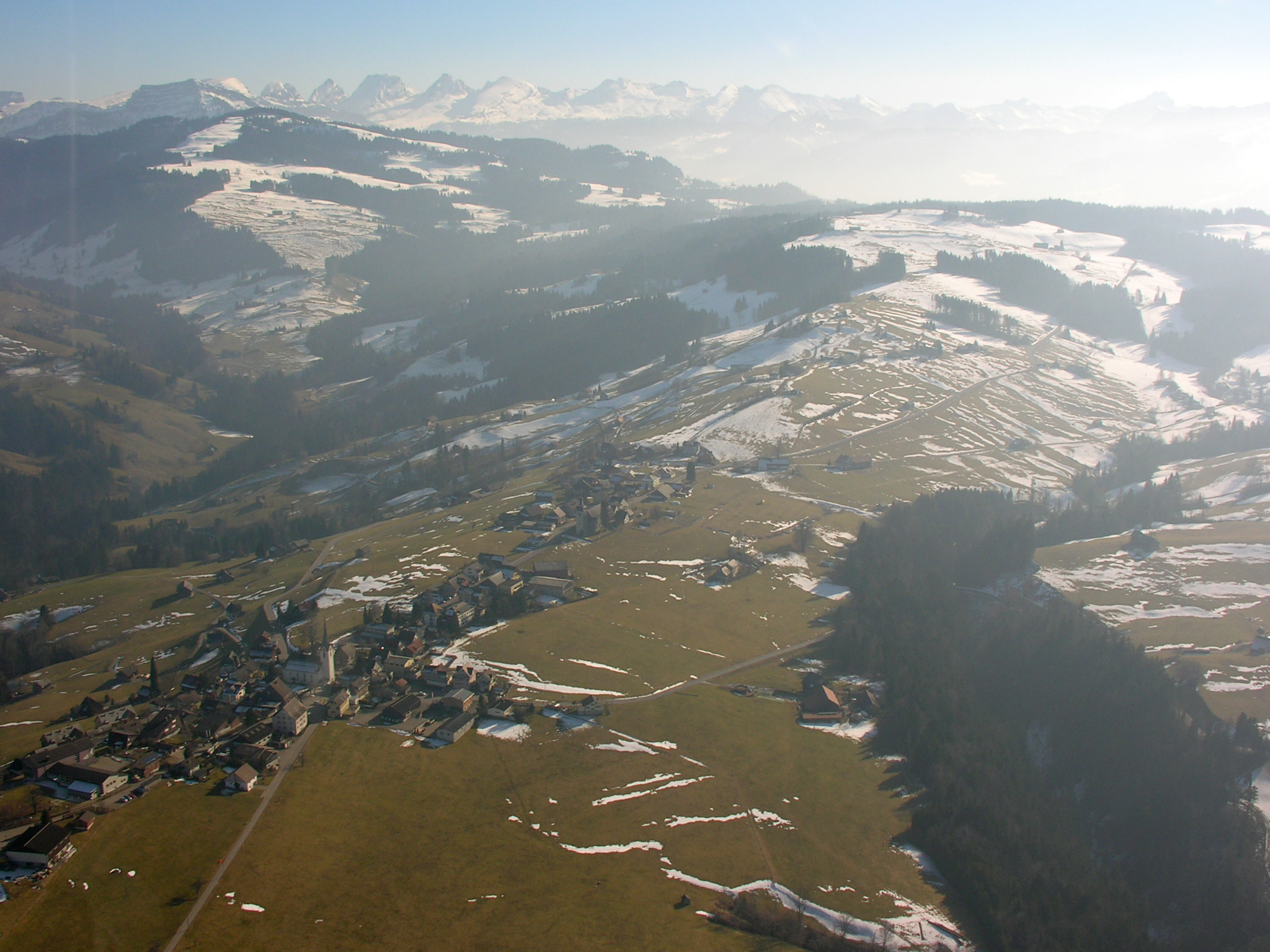 Aerial View of Hemberg